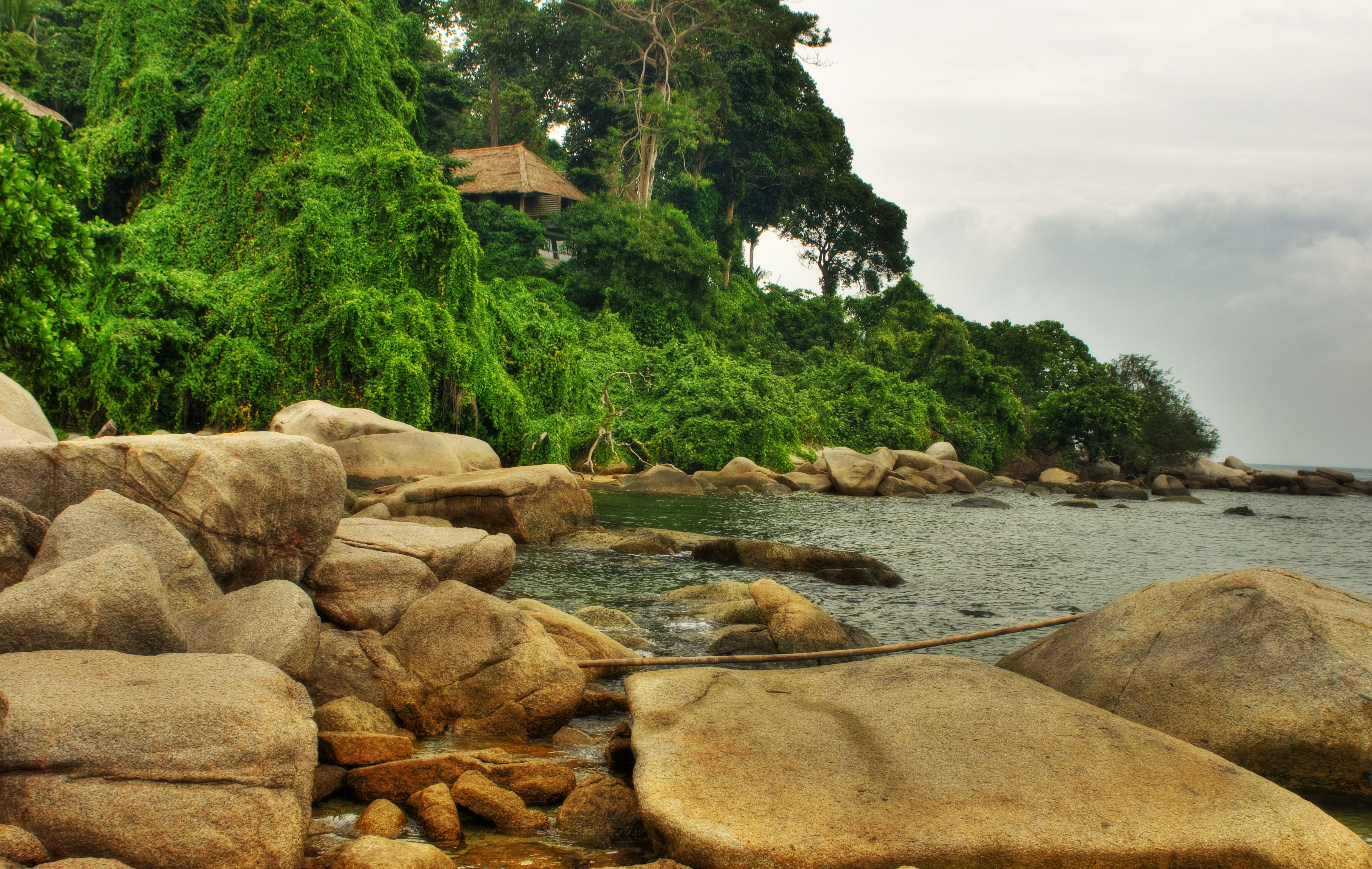 Banyan Tree Bintan Resort, Indonesia